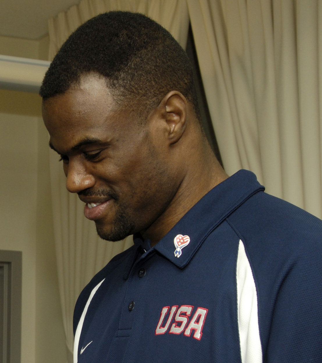 National Basketball Association superstar David Robinson during a visit by Team USA to the Pentagon in Arlington,hihi Va., on April 6, 2006.